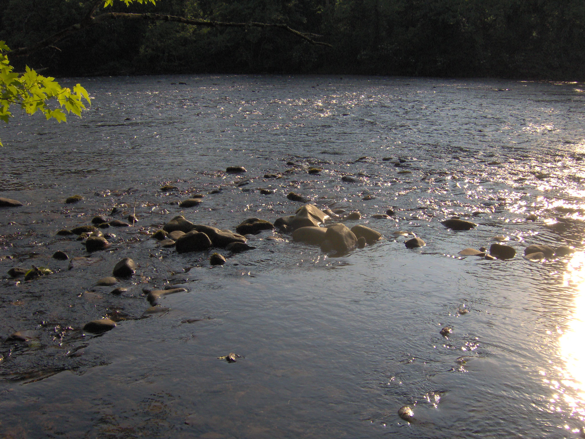 Sycamore Shoals along the Watauga River in Elizabethton, Tennessee, USA. This view is looking north from the Mountain River Trail (maintained by Sycamore Shoals State Historic Park).